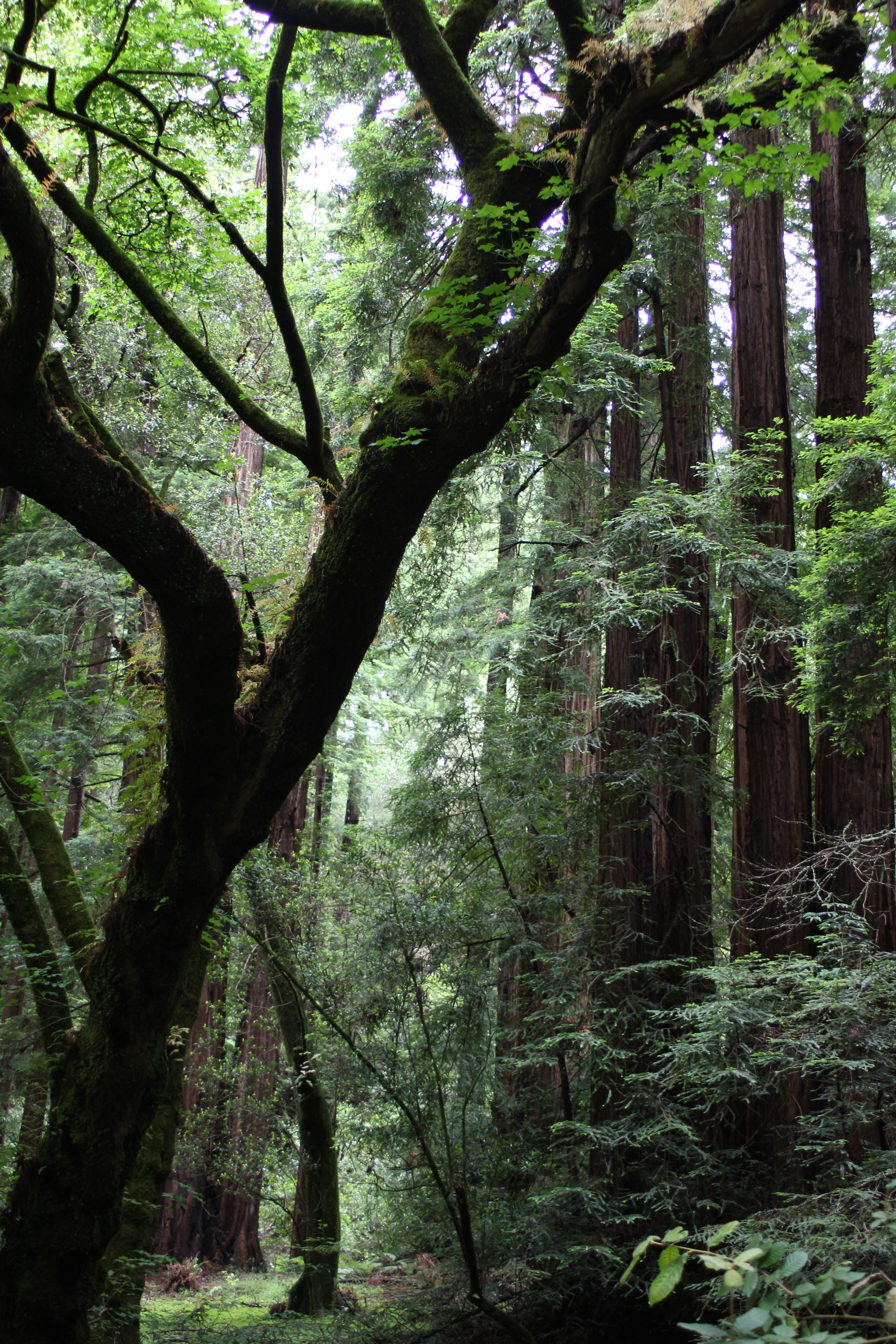 Northern California Muir Woods - National Monument